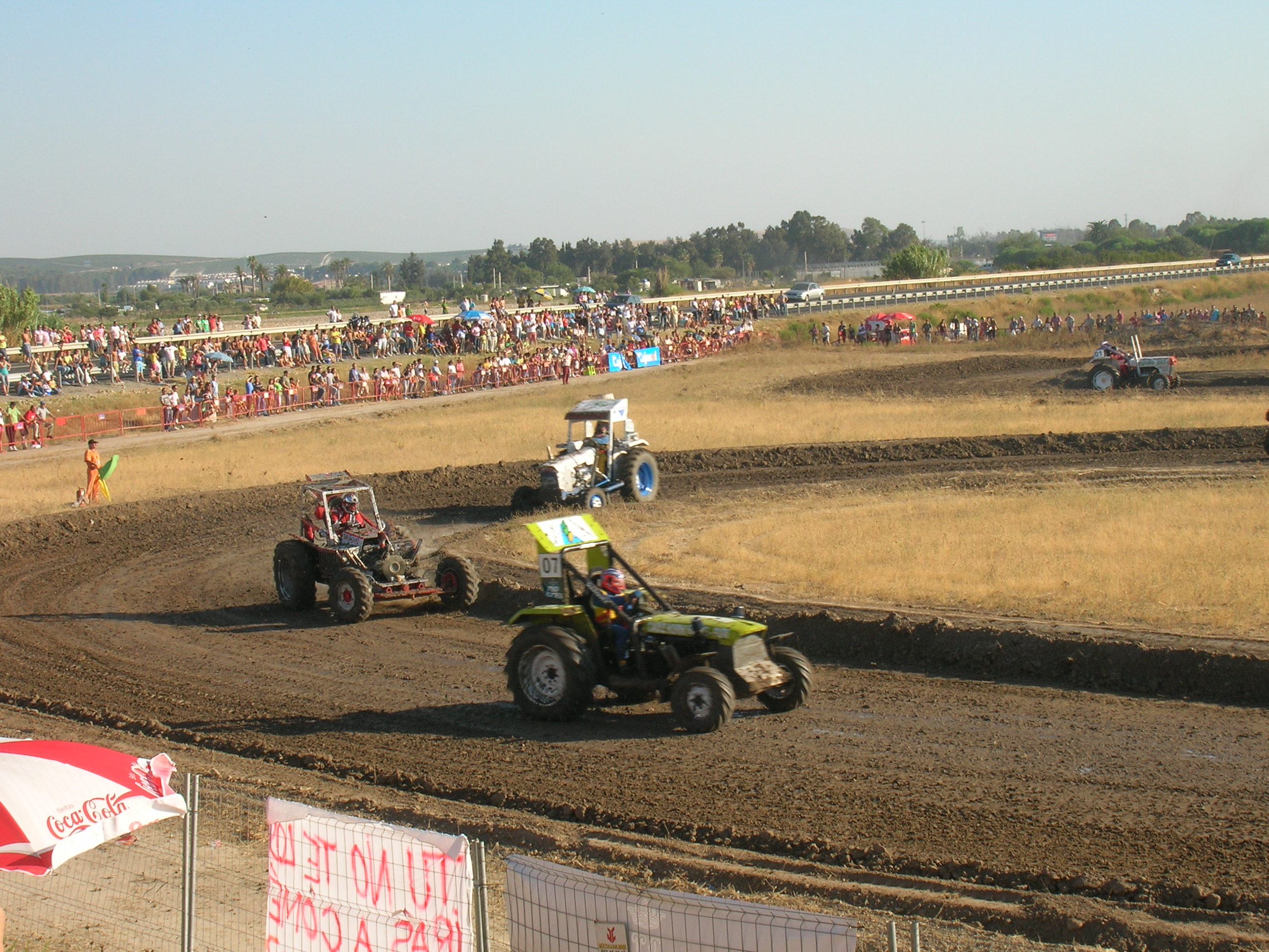 Tractor racing held in Guadalcacín, Spain during its annual fair